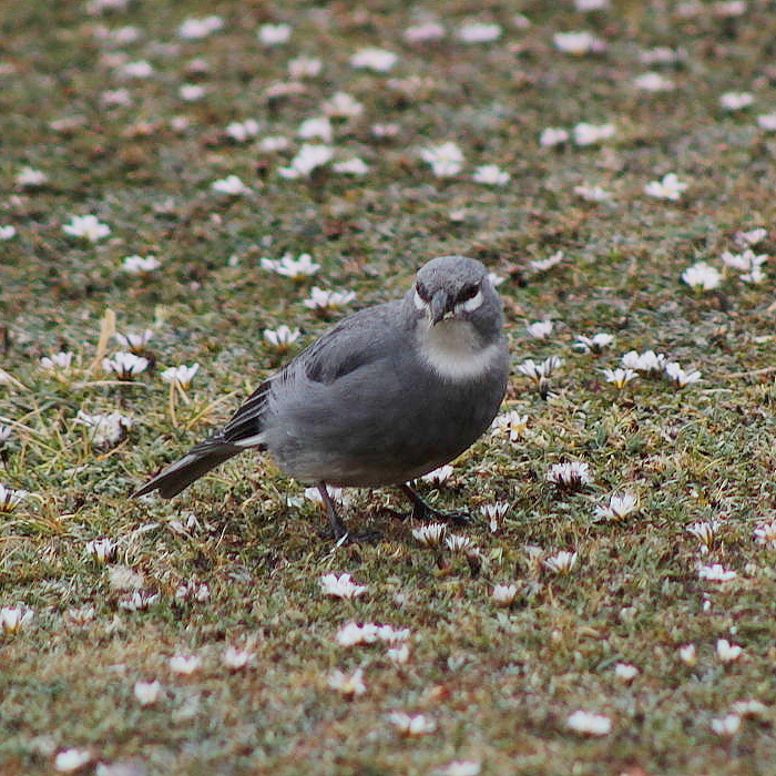 White-winged diuca-finch